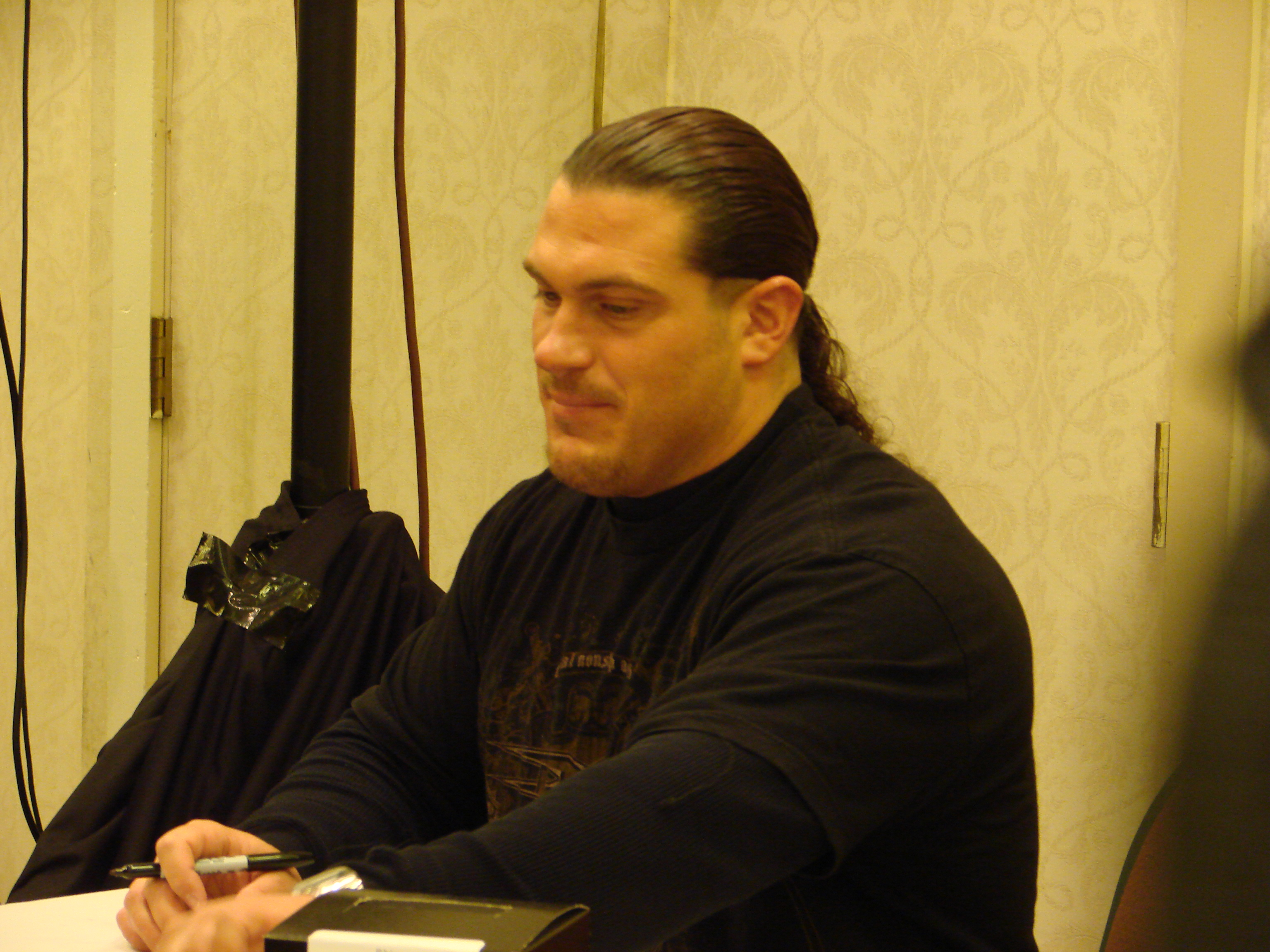 Rhino at TNA Lockdown InterAction April 142007.